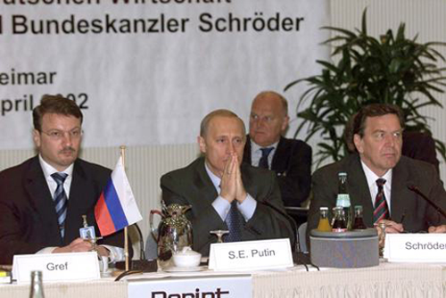 WEIMAR. President Putin with German Chancellor Gerhard Schroeder and Russia's Economic Development and Trade Minister German Gref (left) at a meeting with Russian and German businessmen.